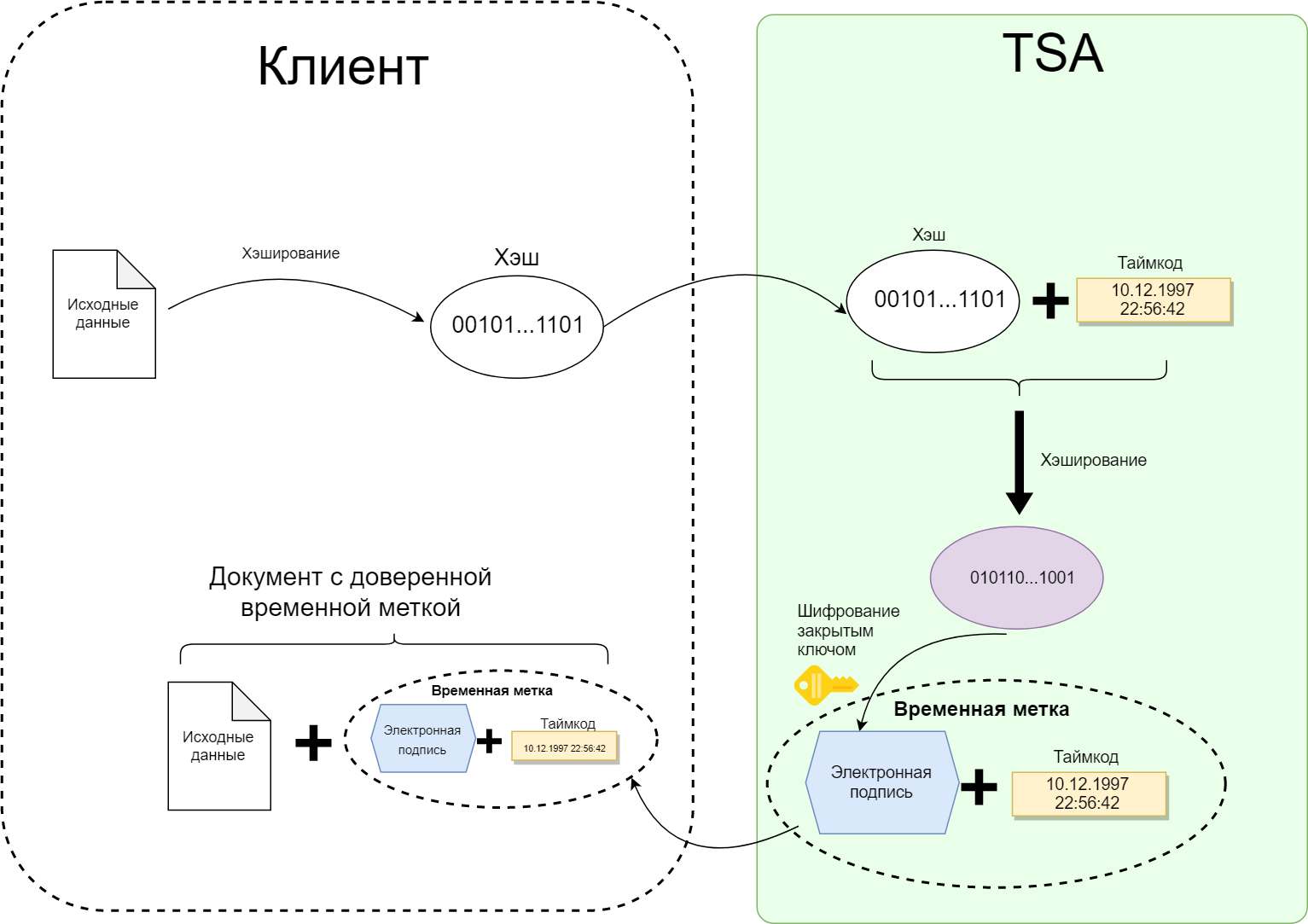 Алгоритм создания доверенной метки на основе алгоритмов шифрования с открытым ключом (электронной подписи)